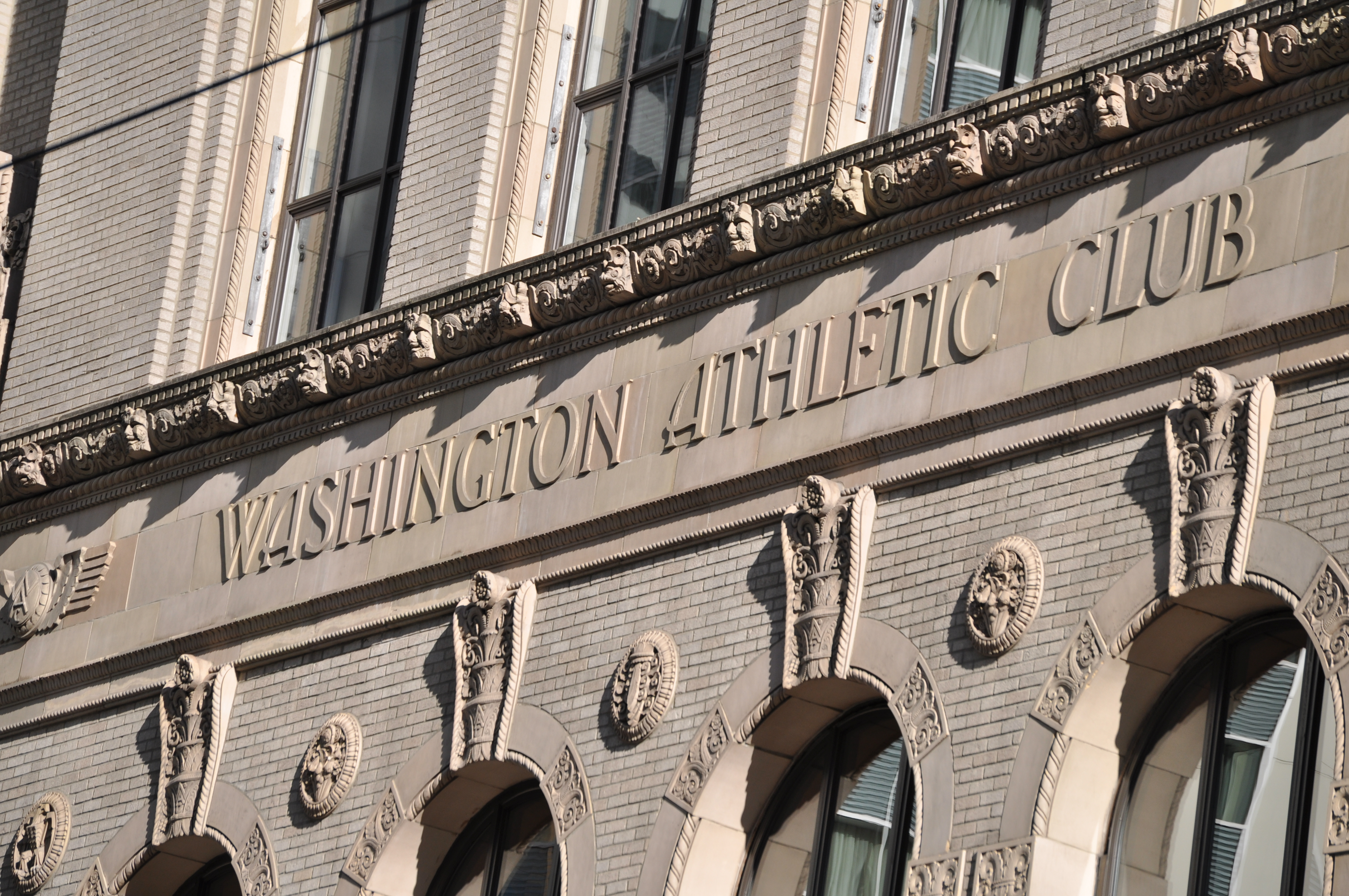 Detail of Washington Athletic Club, Seattle, Washington, USA. The building is an official city landmark.